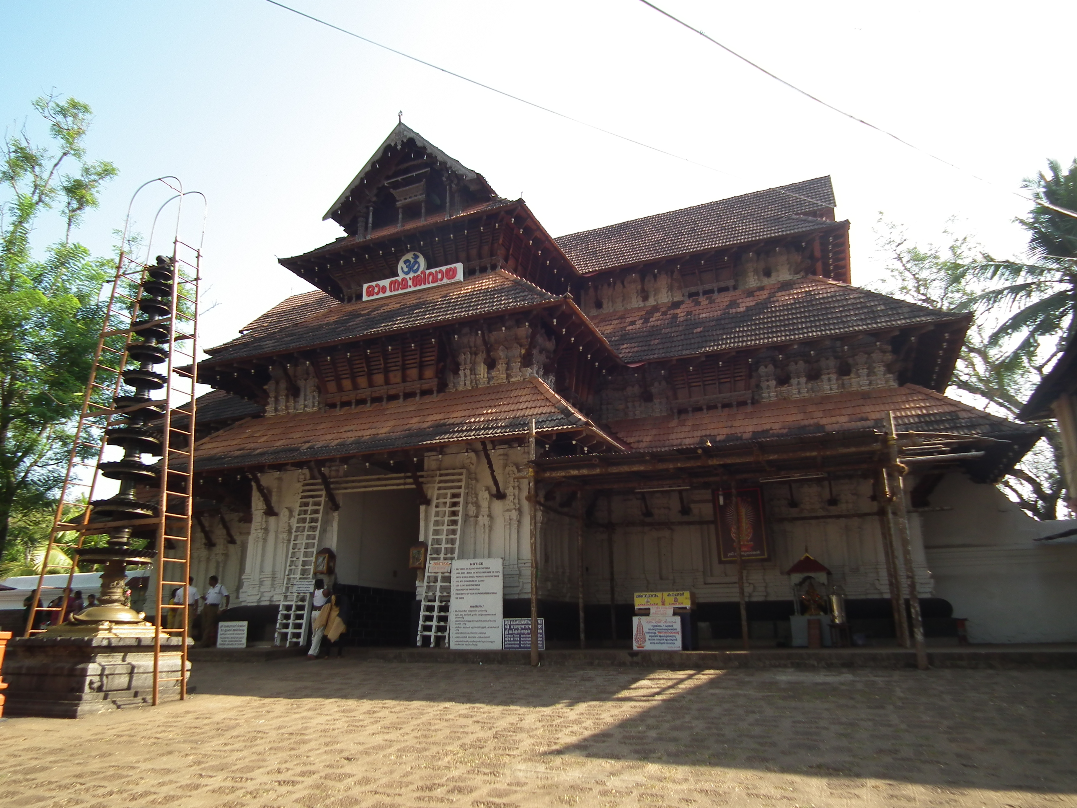 snap from Vadakkunnathan Temple , thrissur